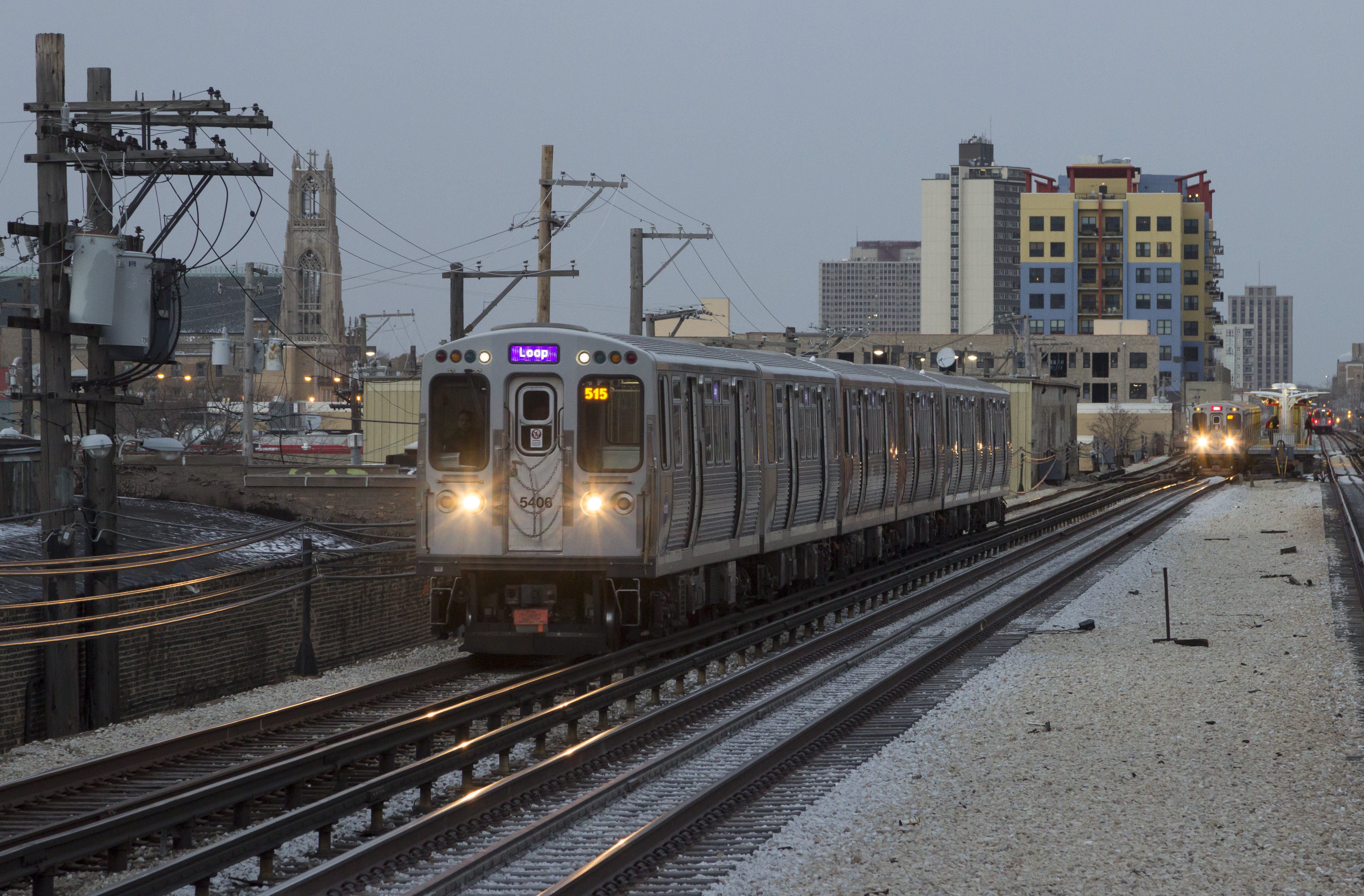 Between Argyle and Bryn Mawr stations on CTA's North Side Main Line, two trains of Bombardier-built 5000-series 'L' cars move south. On the southbound express track, Track 1, a six-car Purple Line Express from Wilmette and Evanston speeds south, heading for Belmont and the Loop. Meanwhile on Track 2, a Red Line train departs Bryn Mawr station, headed south towards the State Street Subway and 95th/Dan Ryan.